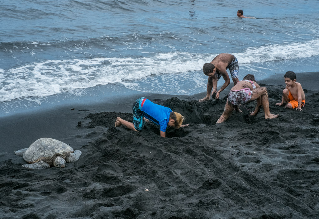 Children and turtle share the black-sand beach at Punaluu.